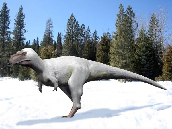 Life reconstruction of Namuqsaurus hoglundi